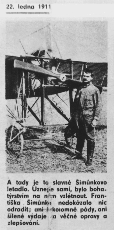 František Šimůnek (* May 19, 1878, Kozmice - 1966) was one of the pioneers of Czech aviation even before the First World War. In a photograph from the press (year 1911) is he captured in front of the aircraft of its own design.